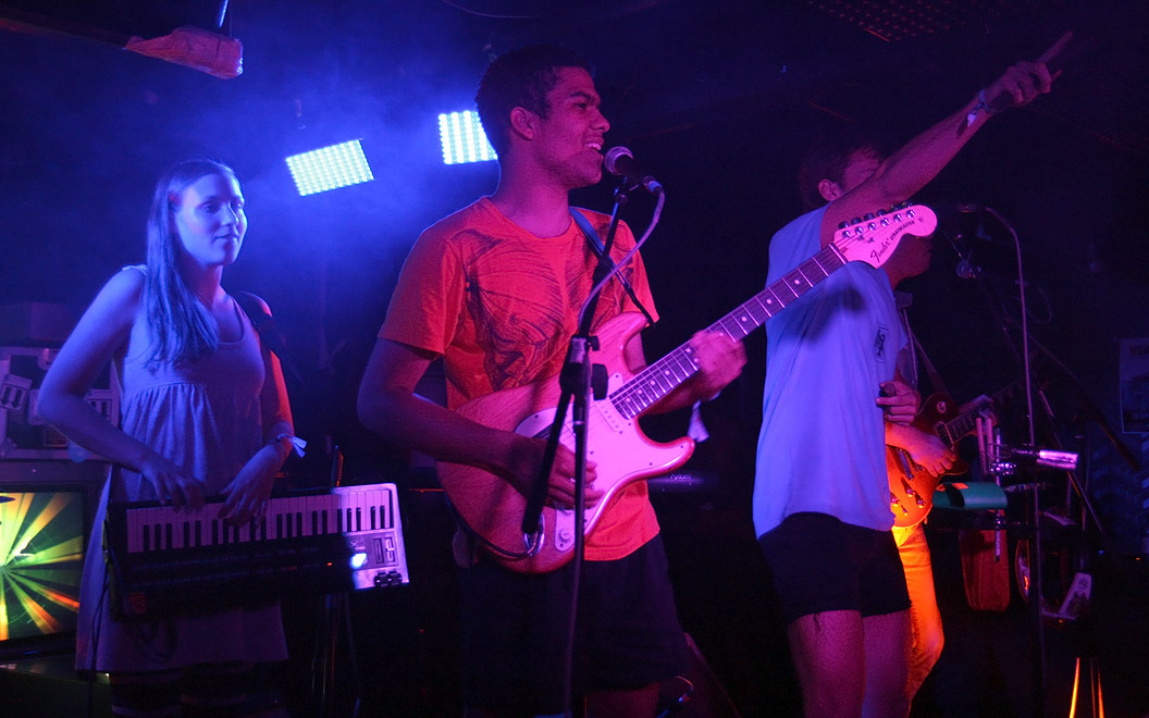 Retro Stefson, Waves Vienna Music Festival & Conference 2011 in Vienna.